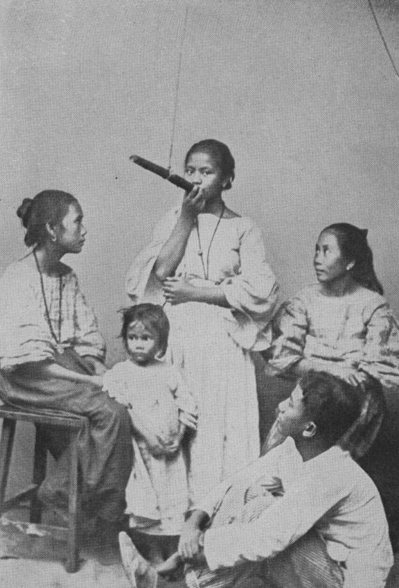 Smoking the family cigar, Northern Luzon, illustration #9 from Scenes taken in the Philippines, China, Japan, and on the Pacific, relating to soldiers by James David Givens, published by Hicks-Judd Co. in 1912.